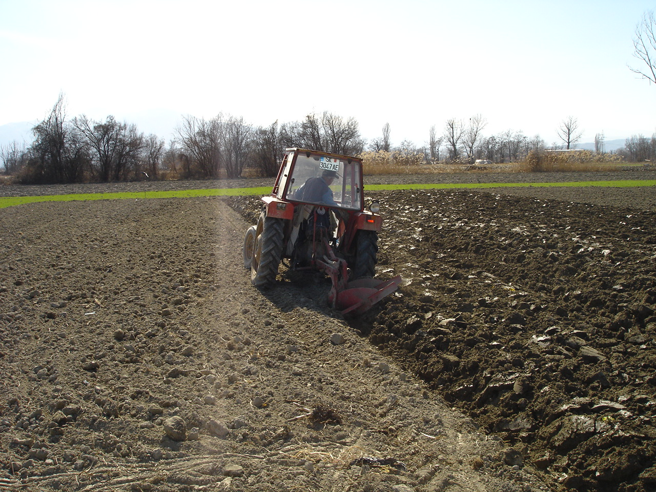 Tractor plowing in Macedonia